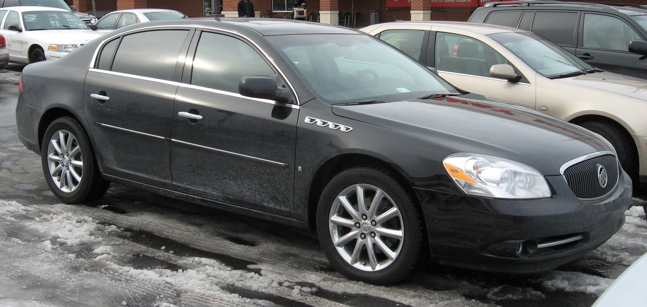 2006-2007 Buick Lucerne photographed in USA.